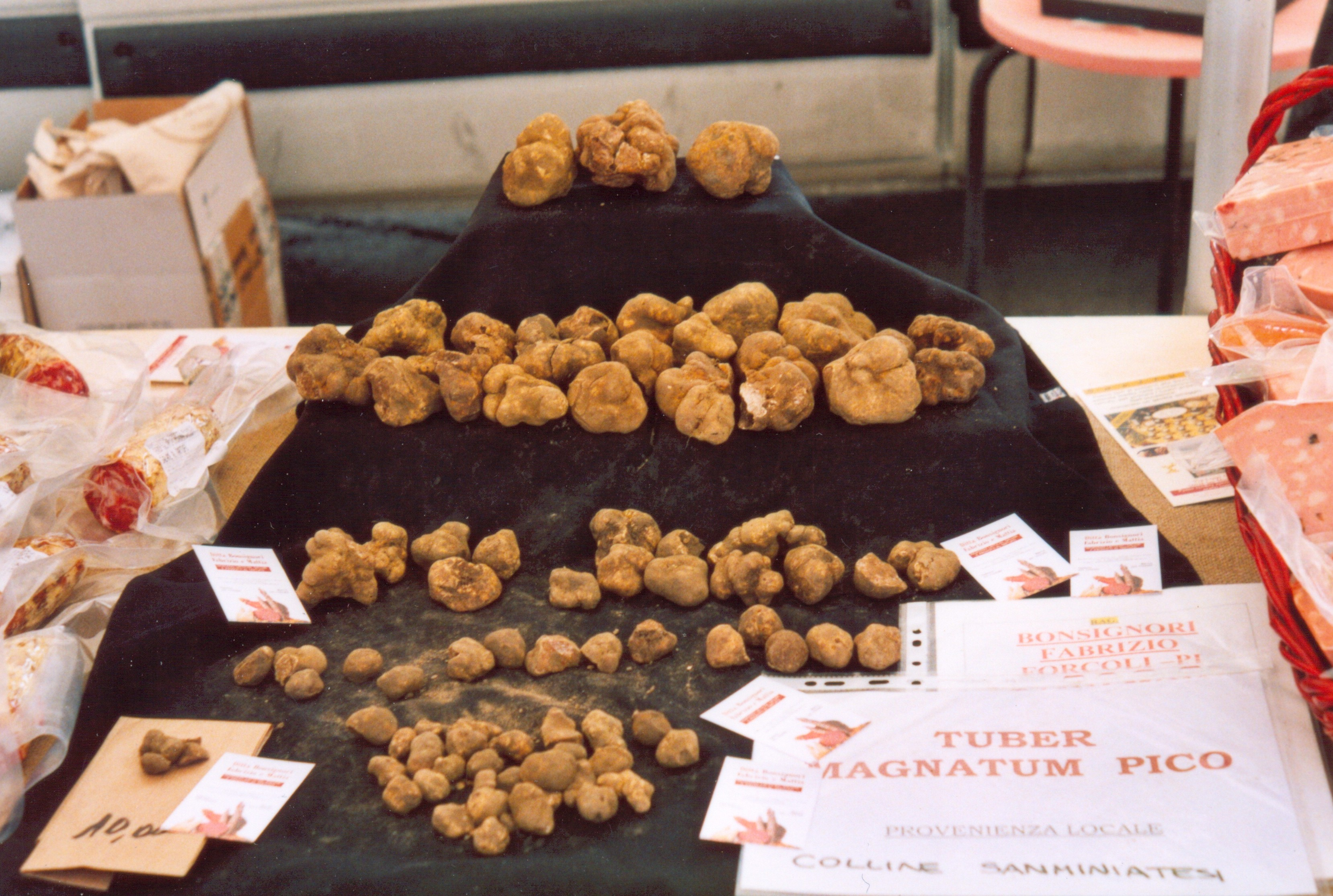 Tuber Magnatum Pico (white truffles), Italy (San Miniato)